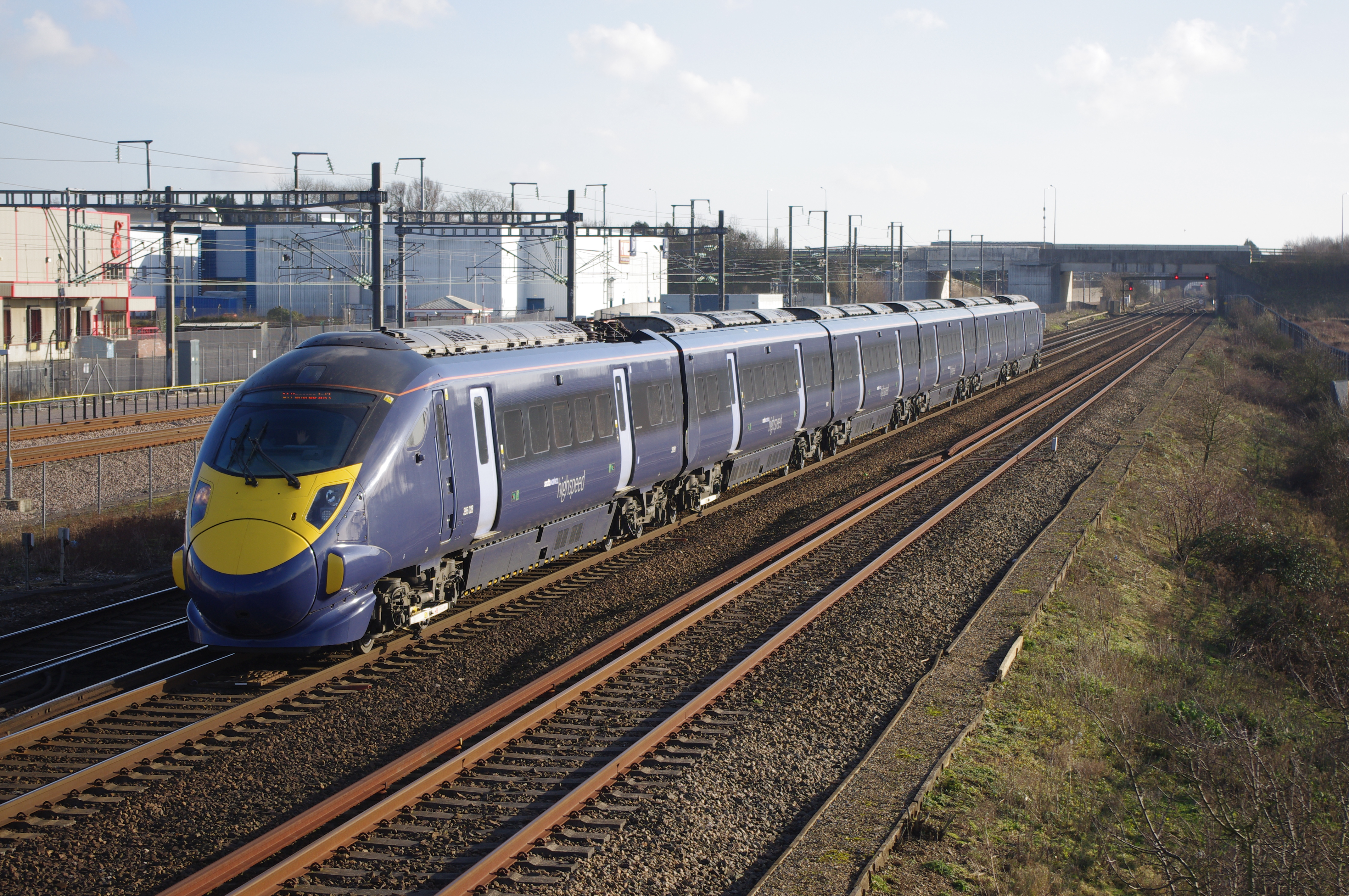 395028 passes Sevington working 1J31 11:44 Dover Priory-St Pancras International.